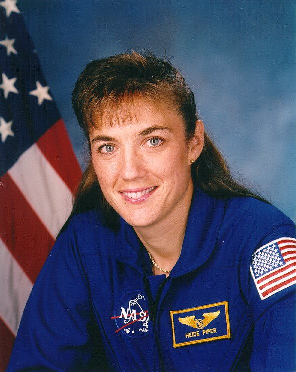 portrait astronaut stefanyshyn-piper